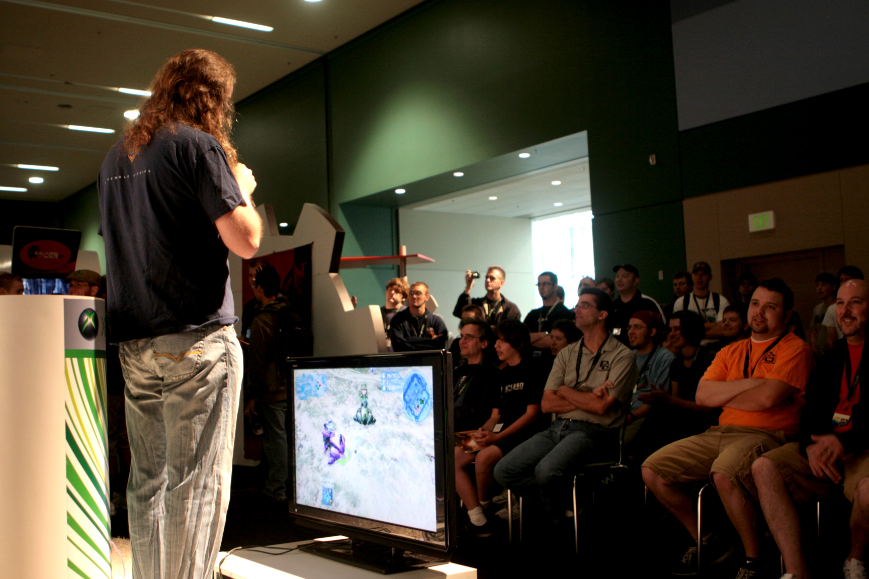 Graeme Devine shows off Halo Wars at PAX 2008